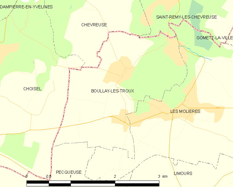 Map of French municipality Boullay-les-Troux